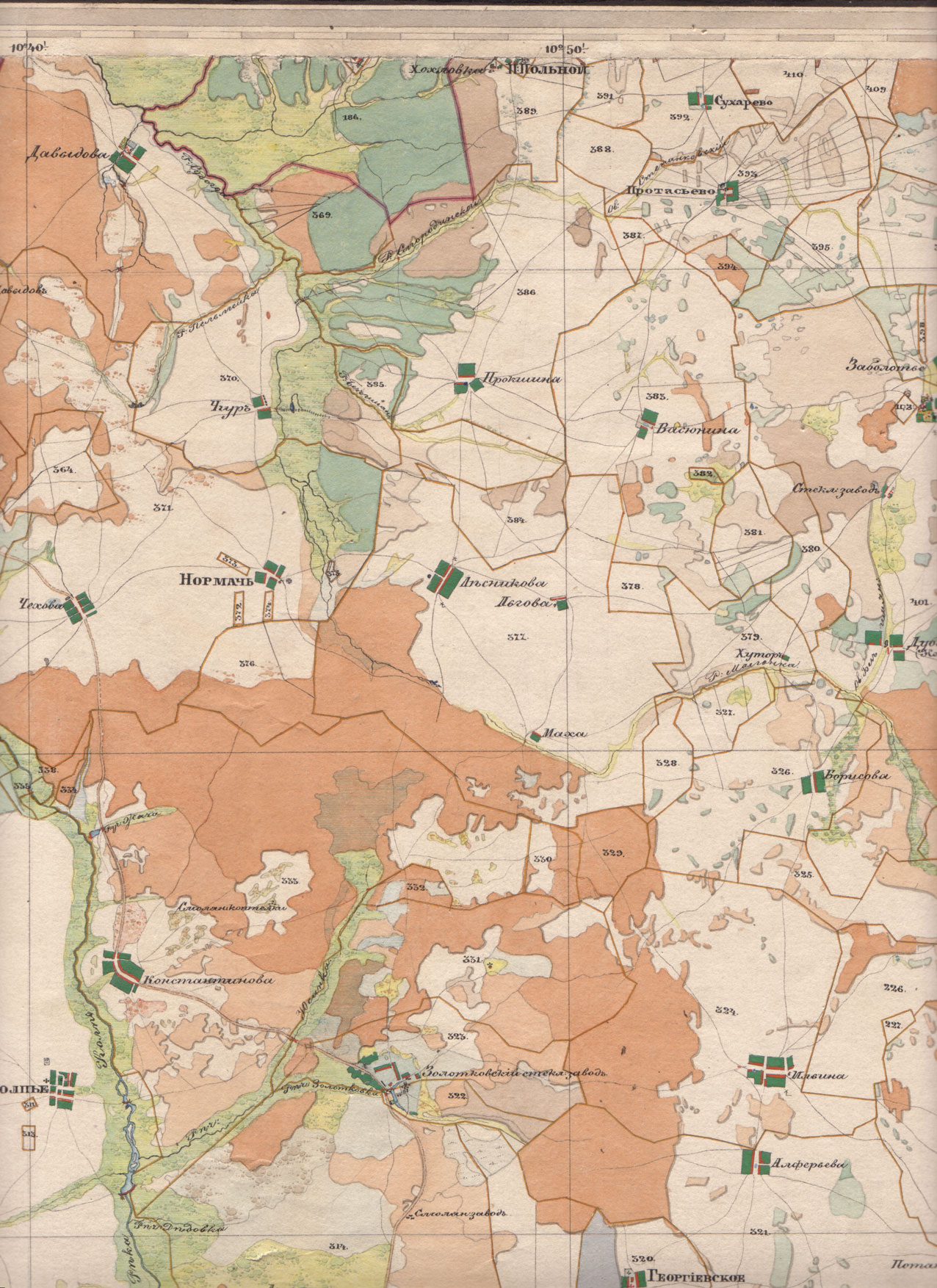 Zolotkovo and Il,ino on a map of Vladimir gubernia 1865.